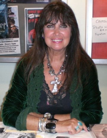 Actress Caroline Munro